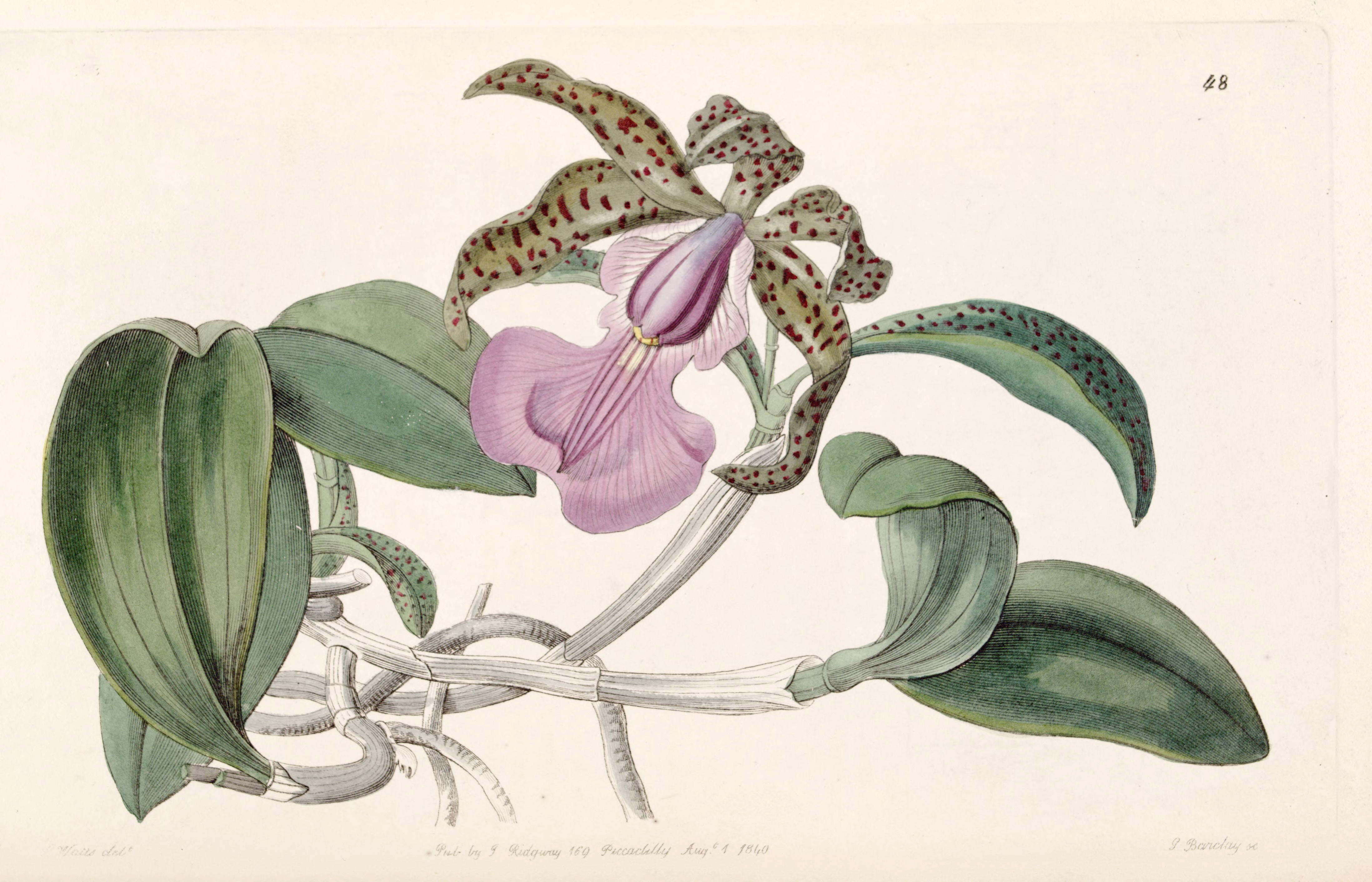 Cattleya aclandiae